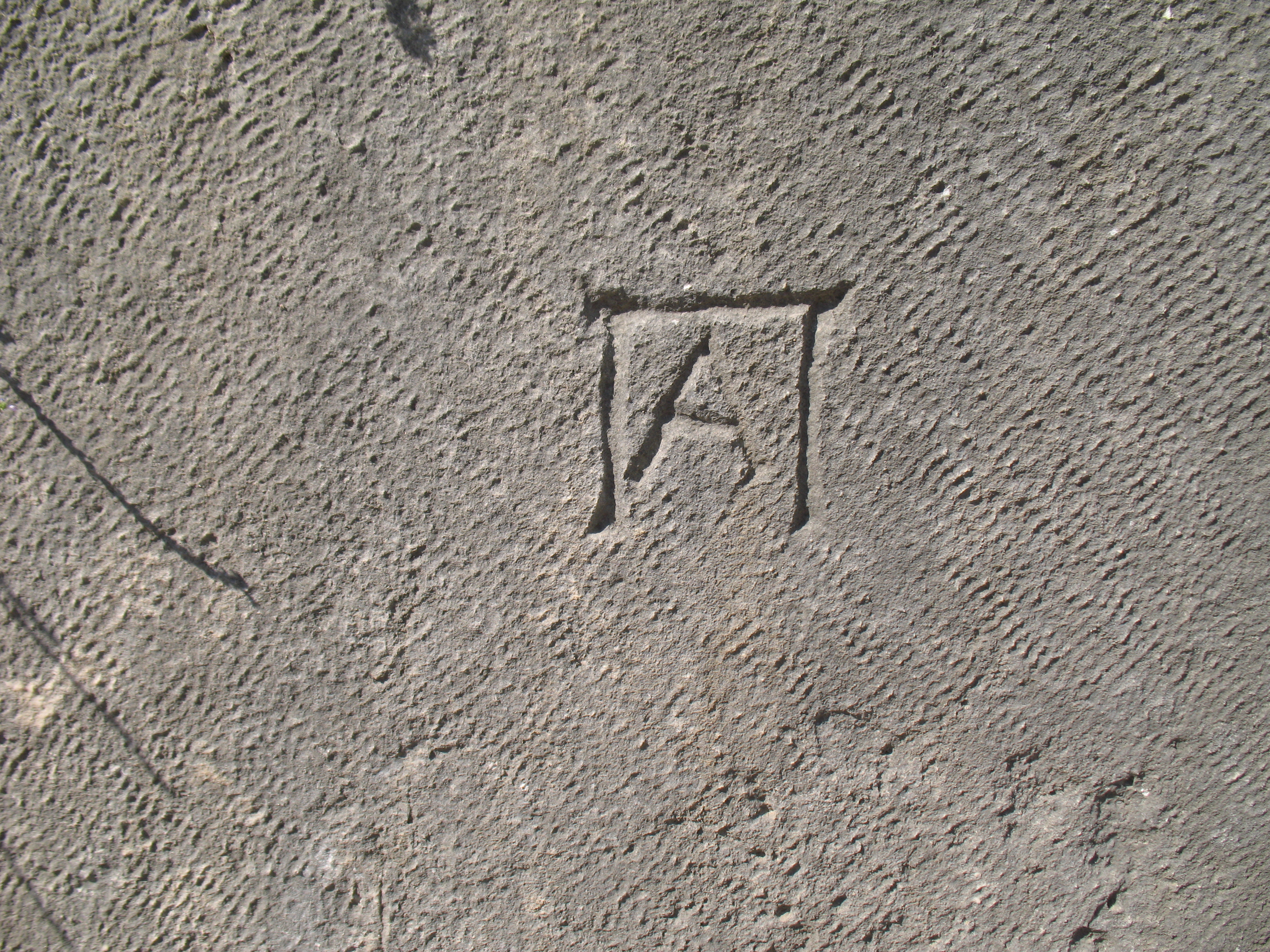 Monogram in ancient theater. Turkey. Myra.